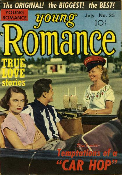 Cover of Young Romance #35, July 1951